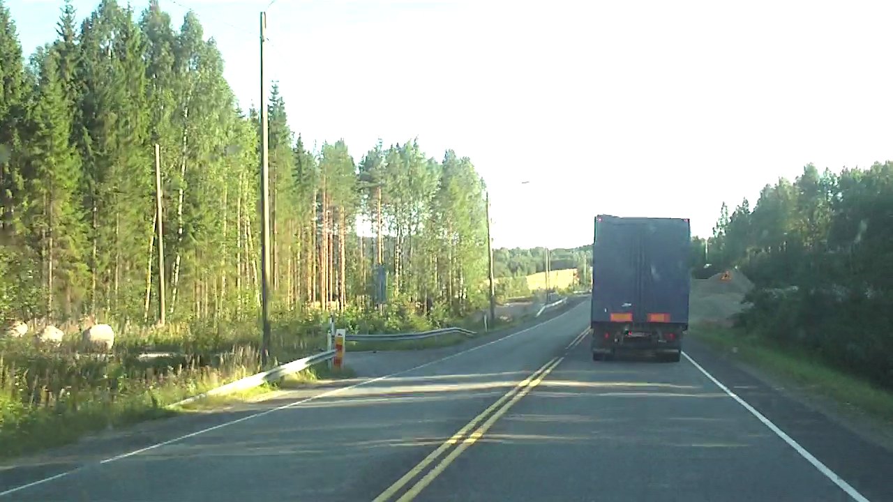 Finnish main road 4 (E75) in Uurainen, Central Finland.